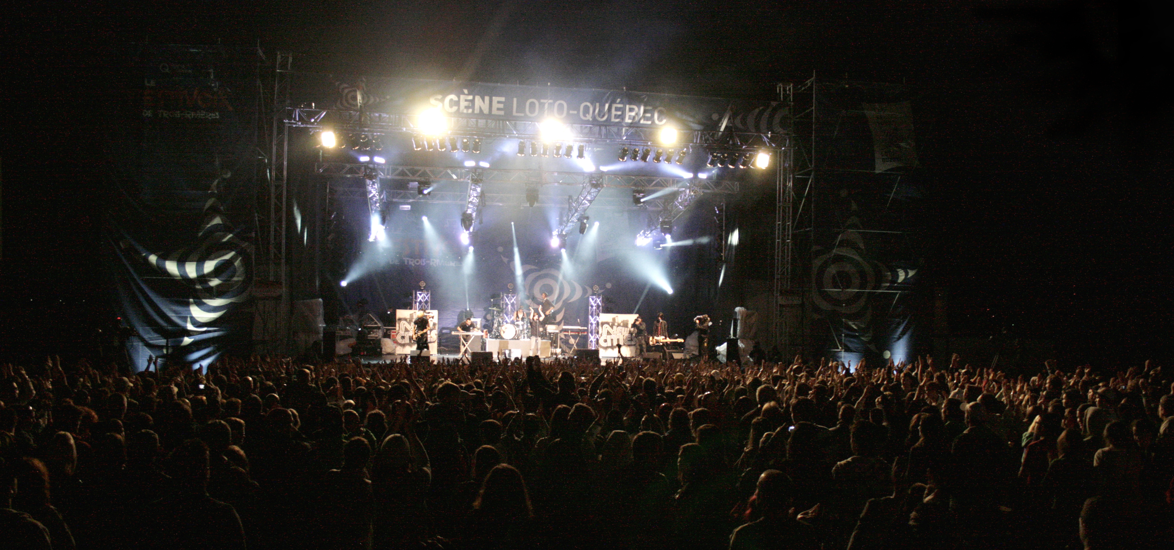 The New Cities headlining at FestiVoix 2010 (Trois-Rivières)